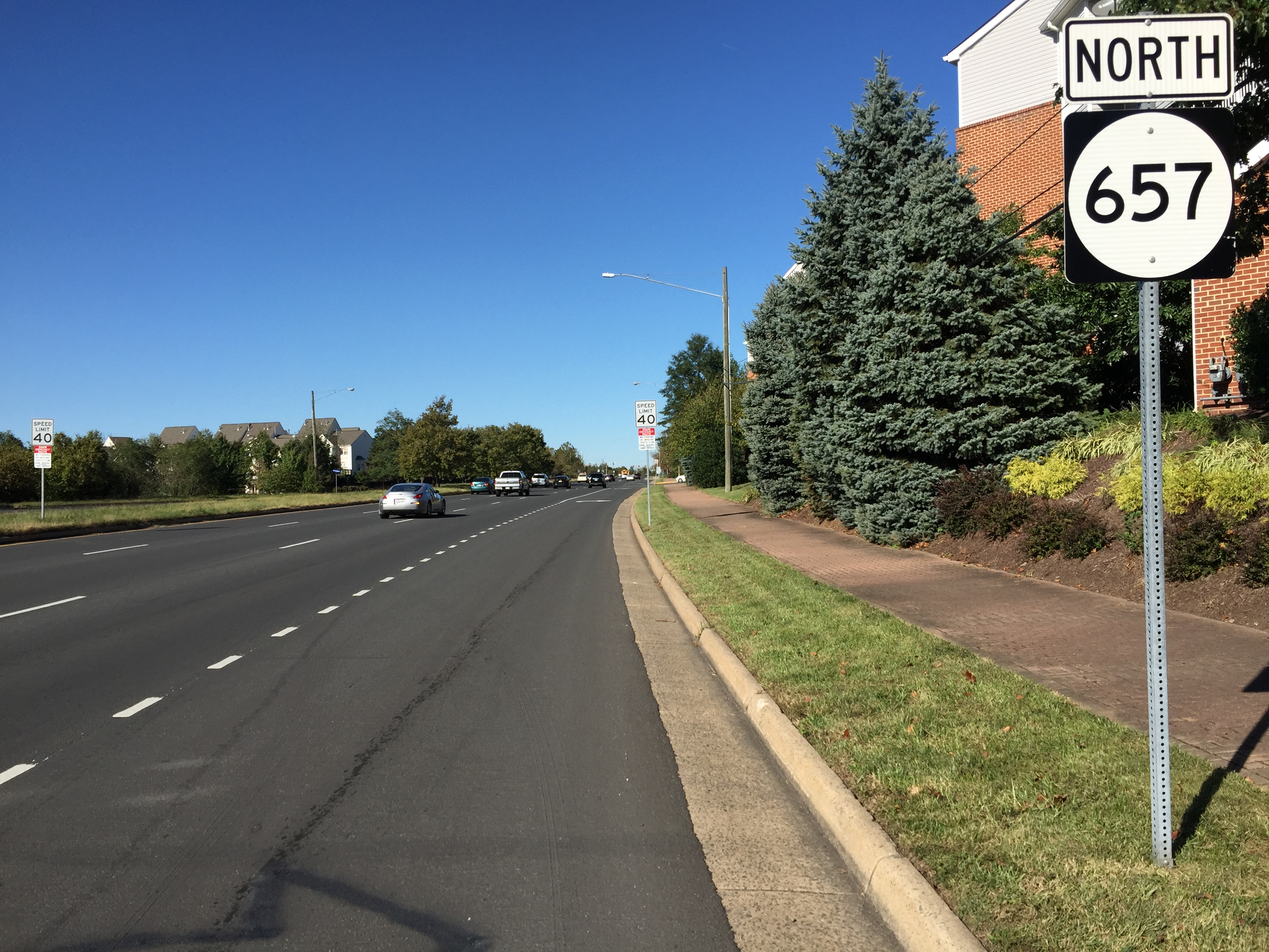 View north along Centreville Road (Virginia State Secondary Route 657) at Frying Pan Road (Virginia State Secondary Route 608) in McNair, Fairfax County, Virginia